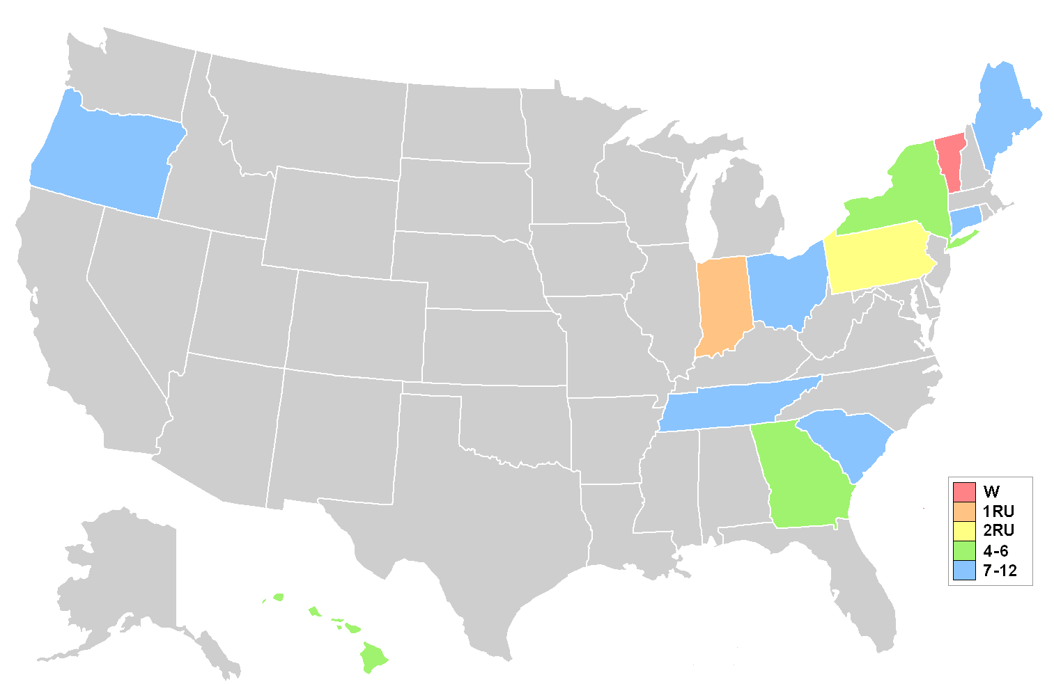 Map showing placements at the Miss Teen USA 1993 pageant. Key on graphic shows colour coding for break down of placements.